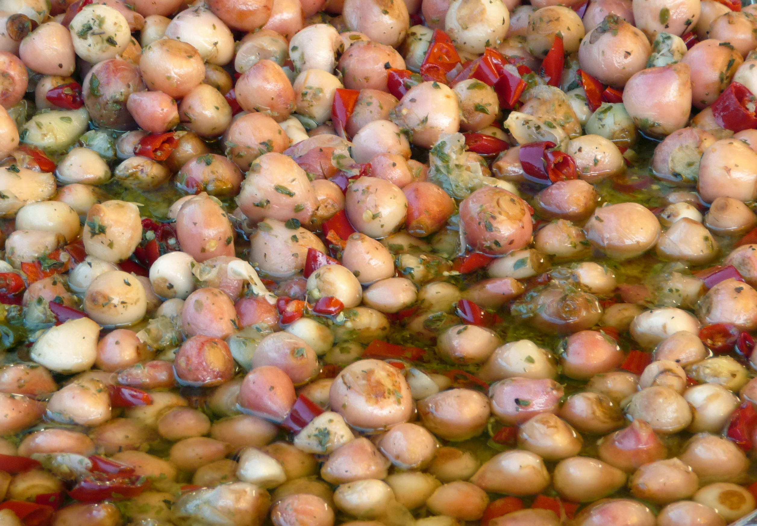 Lampascioni sott'olio, typical gastronomic product of the Italian region Apulia - Bulbs of Muscari comosum